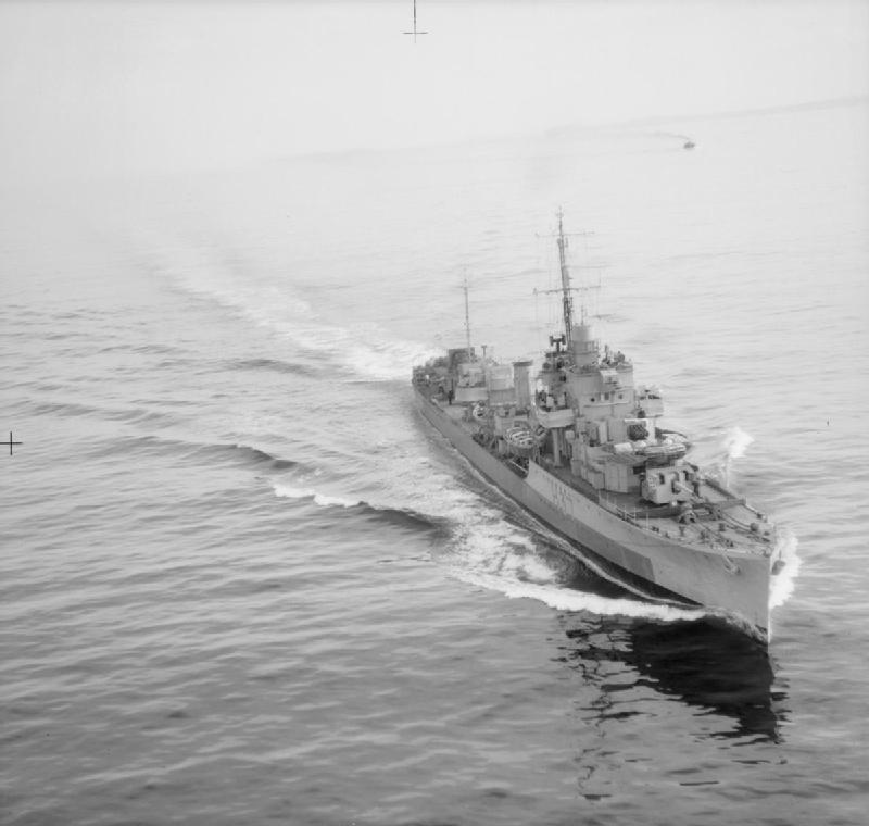 Photograph of British G class destroyer HMS Garland (between 3 may 1940 and 24 september 1946 to Polish Navy as ORP Garland)